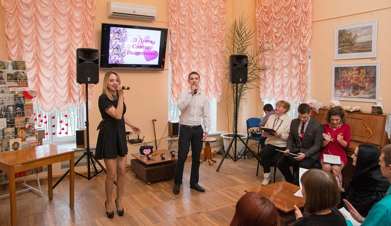 Літературна вітальня